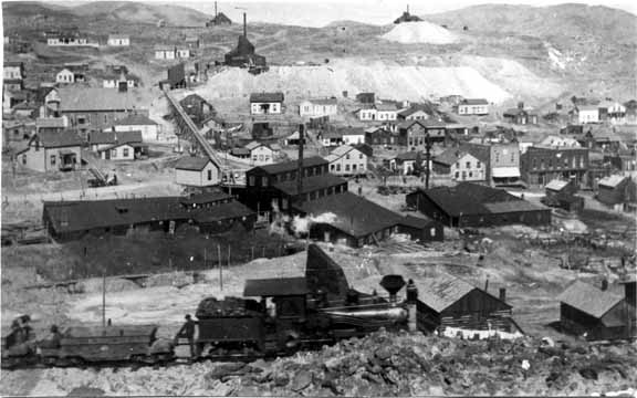 Gilpin Tram